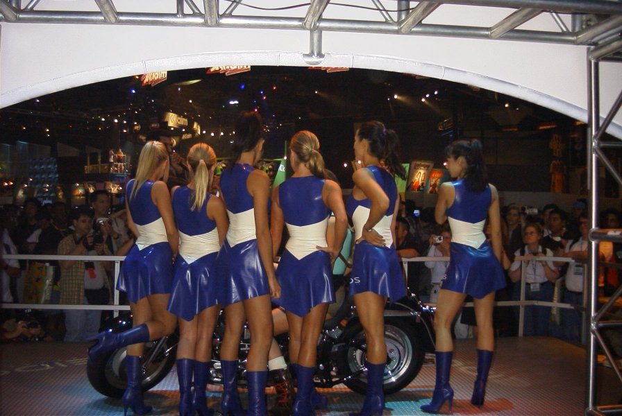 Booth Babes from Eidos Stand at E3 2000